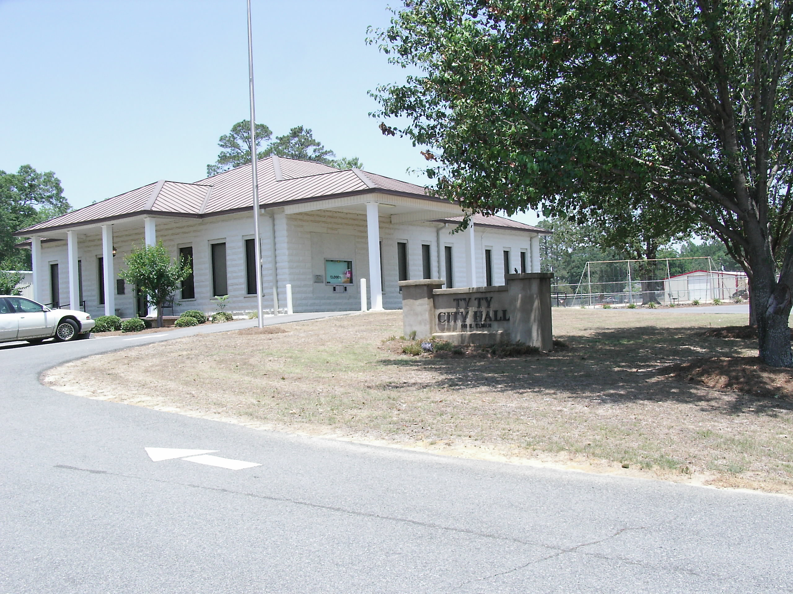 Ty Ty City Hall, Ty Ty, Tift County, Georgia